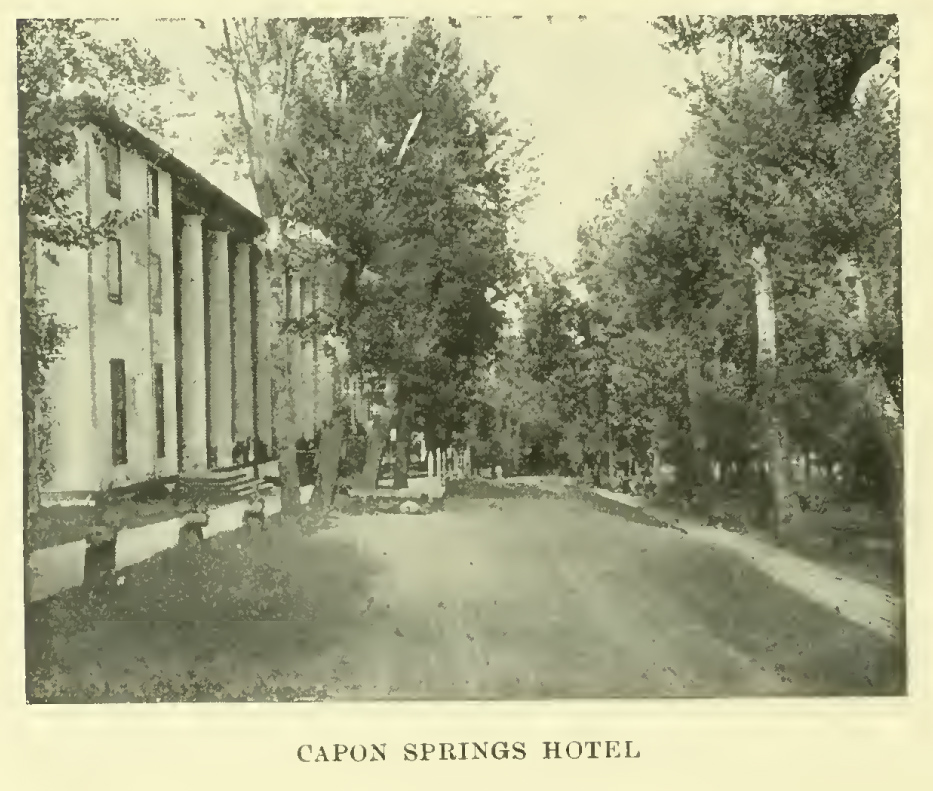 Photograph of Capon Springs Hotel in Capon Springs, WV, that appeared in Baltimore & Ohio Railroad Company's Book of the Royal Blue, April 1909, Vol. 12 No. 07, Page 14